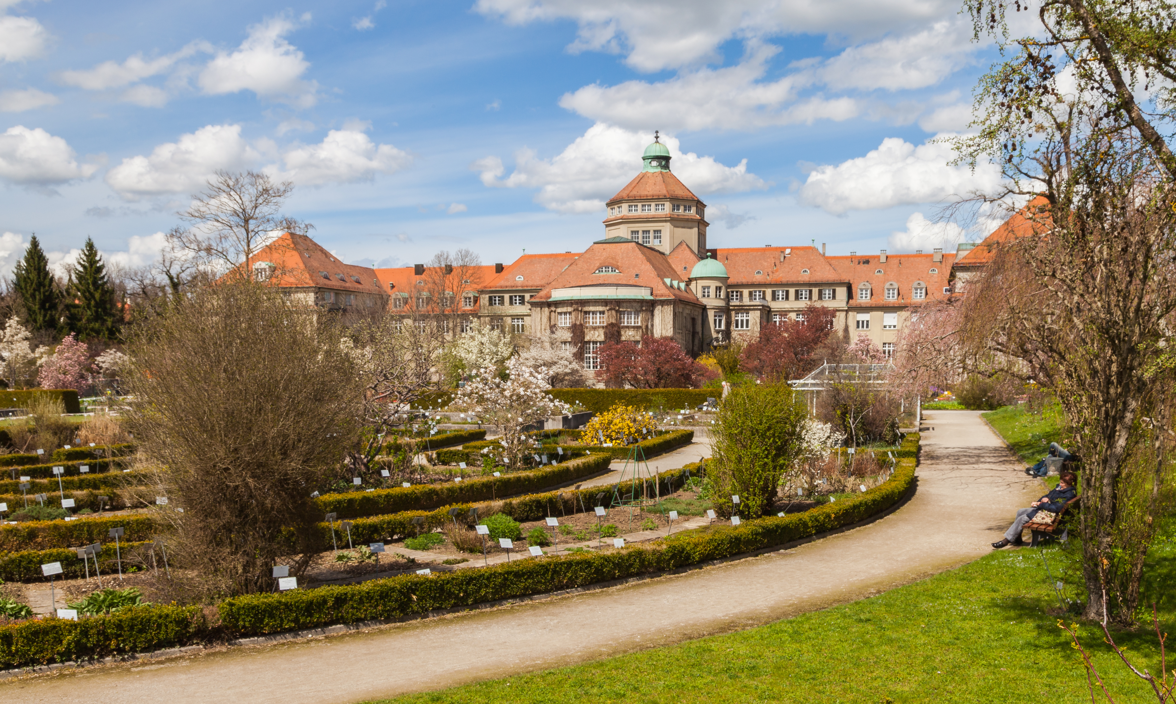 Main building, Botanic Garden, Munich, Germany